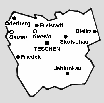 Map of Duchy of Teschen (Cieszyn), as of 1880, part of Austria